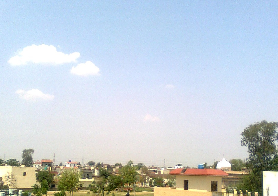 bassi pathana skyline from reliance tower